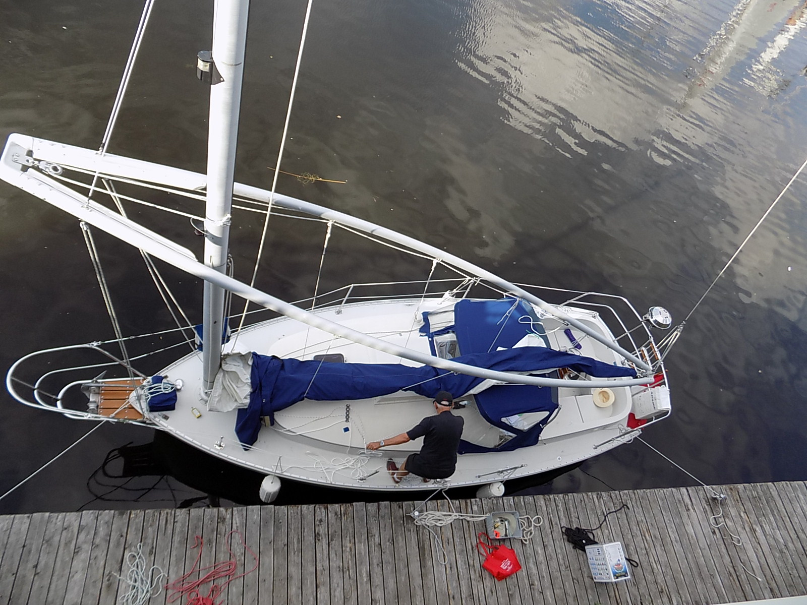 A vertical oblique view of a Nonsuch 22 sailboat named Sweetie Pie V, undergoing work at the dock. The photo shows the hull arrangement, mast location and the wishbone boom.